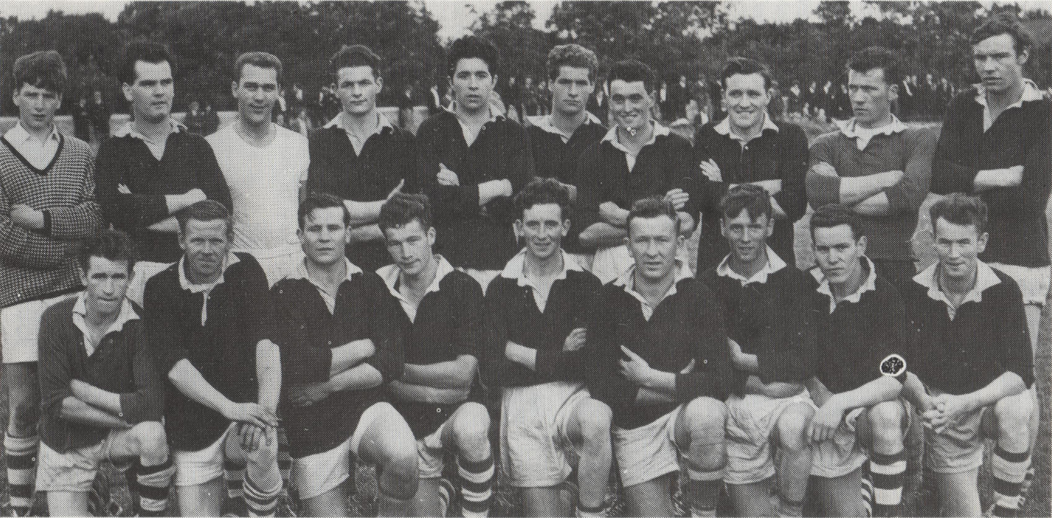 Magheracloone GFC 1965 Caption Magheracloone - Winners of Carrick Tournament September 4th, 1965 BACK ROW (L to R): P. Duffy, Gene Martin, D. Meegan, F. Ward, B. McCaul, P. Ward, P. Freeman, P. Courtney, V. Courtney, J. Hand. FRONT ROW (L to R): M. Jones, J. Fox, P.J. Courtney, E. Gilsenan, P. Shannon, P.J. Gilsenan, J. Burns, P. Gilseman, B. Gilsenan.